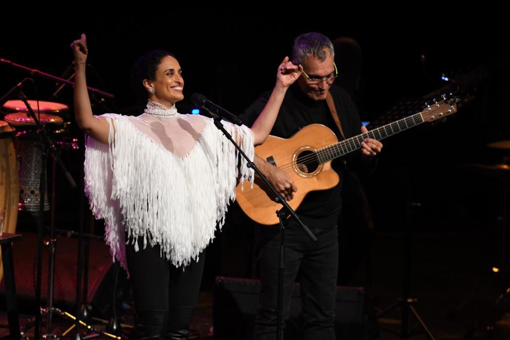 Noa performs with Gil Dor at the Mishkan le’Omanuyiot Habama, Tel Aviv, March 2019. Photo by Michel Braunstein, with thanks to the Achinoam Nini private archive.